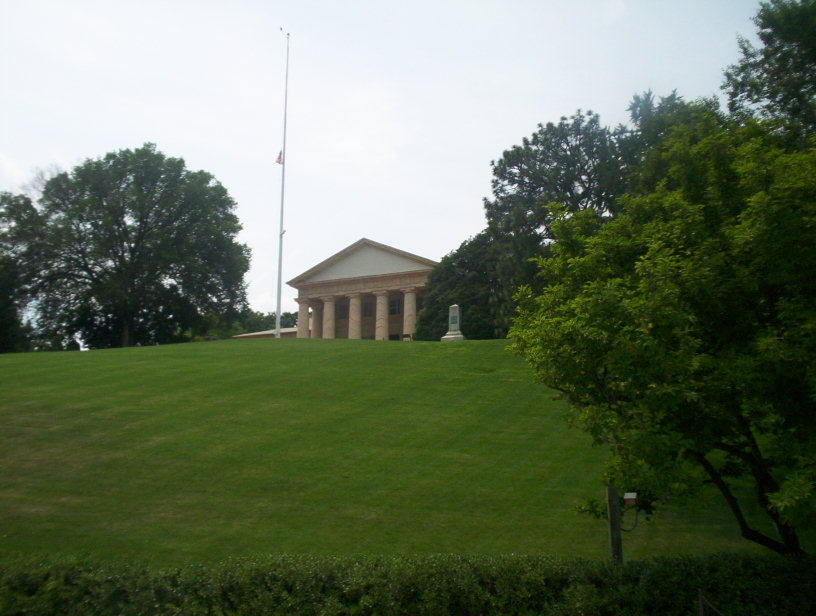 National Arlington Cemetery, Arlington, Virginia, United States; Curtis Lee Mansion